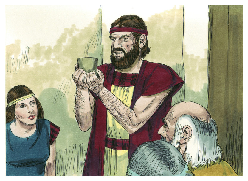 Biblical illustration of Book of Exodus Chapter 13